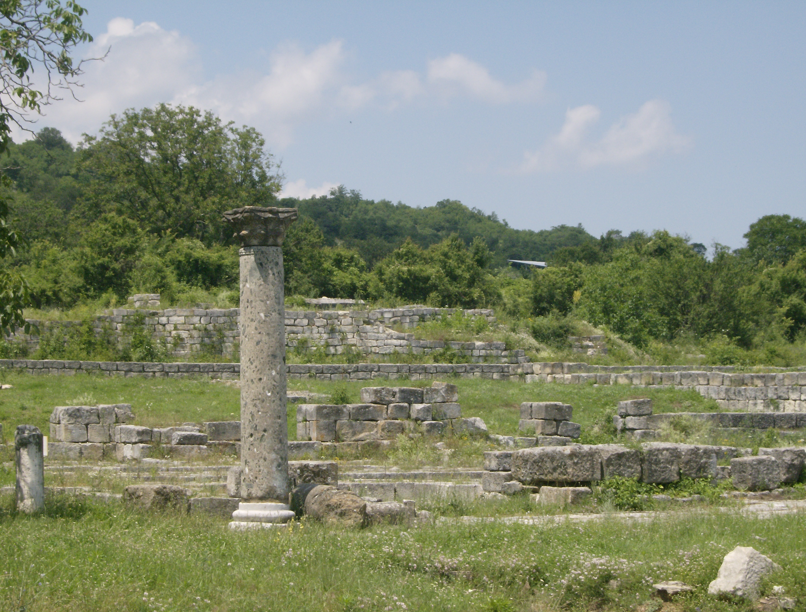 Preslav Fortress